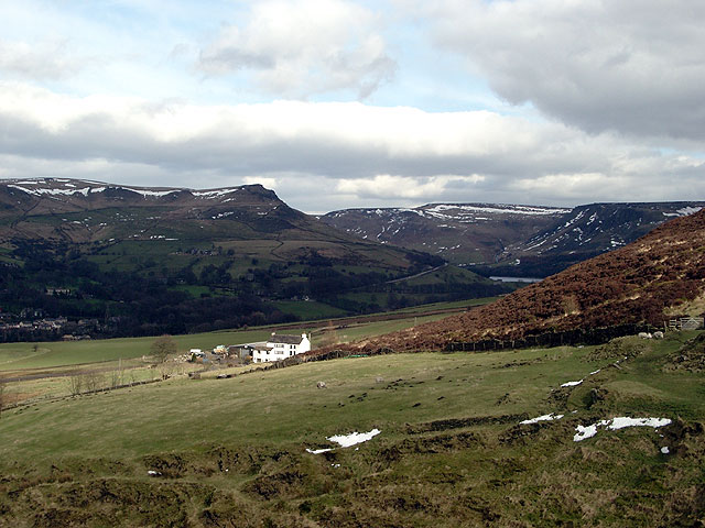 The edge of Greenfield in Saddleworth, Greater Manchester, England. Looking ENE from the Oldham Way at SD993033.